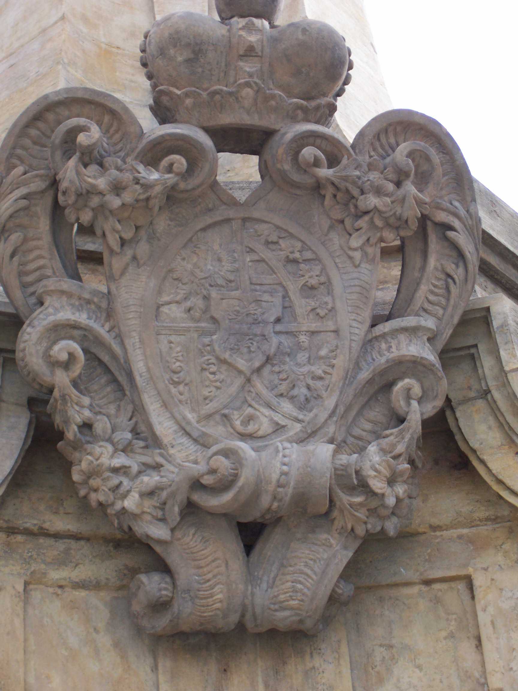 Šternberk: Marian Column - Coat of Arms Familly von Liechtenstein (Joseph Adam L.) (the filename is incorrect)